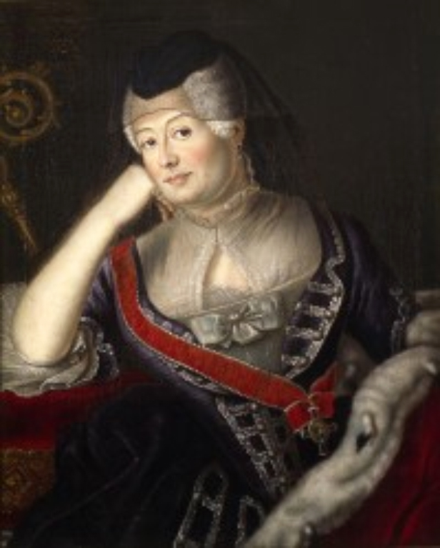 Johanna Charlotte of Anhalt-Dessau,margravine of Brandenburg-Schwedt and princess-abbess of Herford